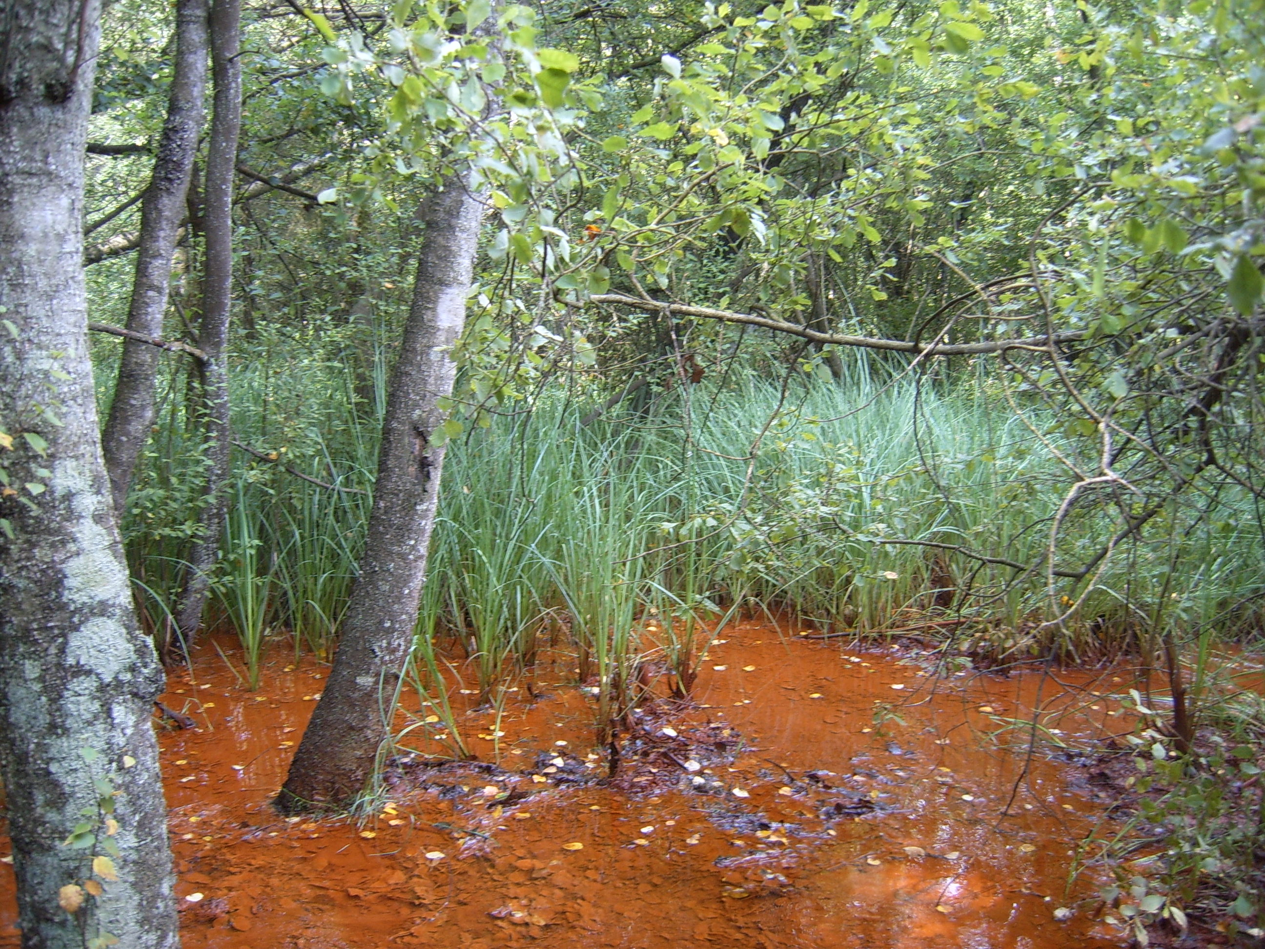 Swamp close to the Eau Rouge river ("Red water", because of its high iron concentration). The circuit de Spa-Francorchamps is about 1km lower.